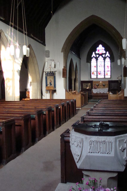 St Luke's Church Tutshill - interior